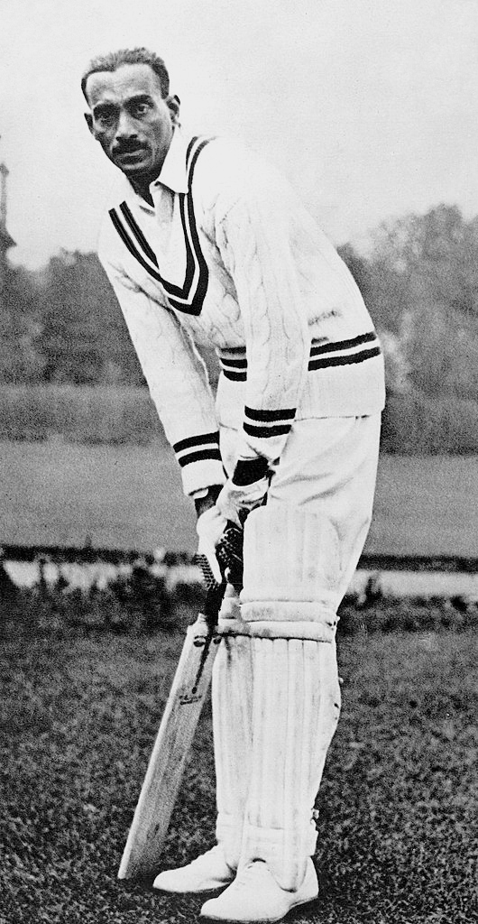 circa 1930's, Cottari Kanakaiya Nayudu, (1895-1967) Indian batsman who played in 7 Tests for his country